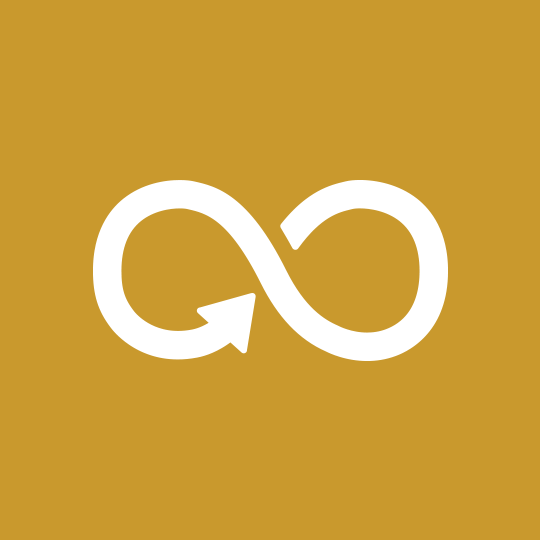 Logo of SDG12 Sustainable Consumption and Production